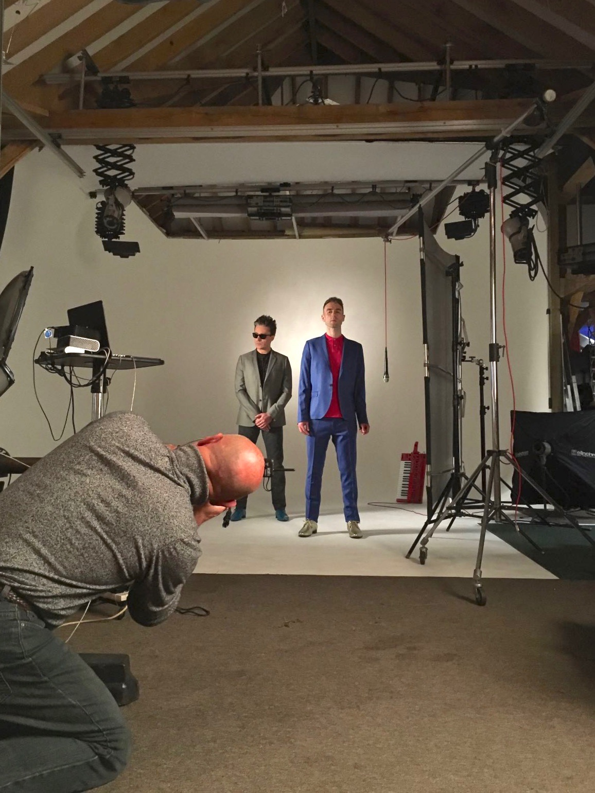 Electronic music group Zoot Woman at a promotional photo shoot in 2017